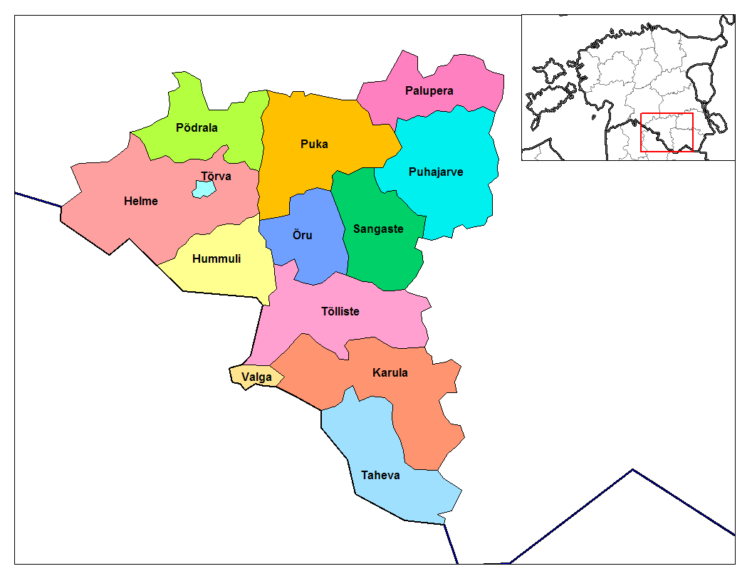 Map of the municipalities of Valga county in Estonia. Created by Rarelibra 17:36, 22 December 2006 (UTC) for public domain use, using MapInfo Professional v8.5 and various mapping resources.